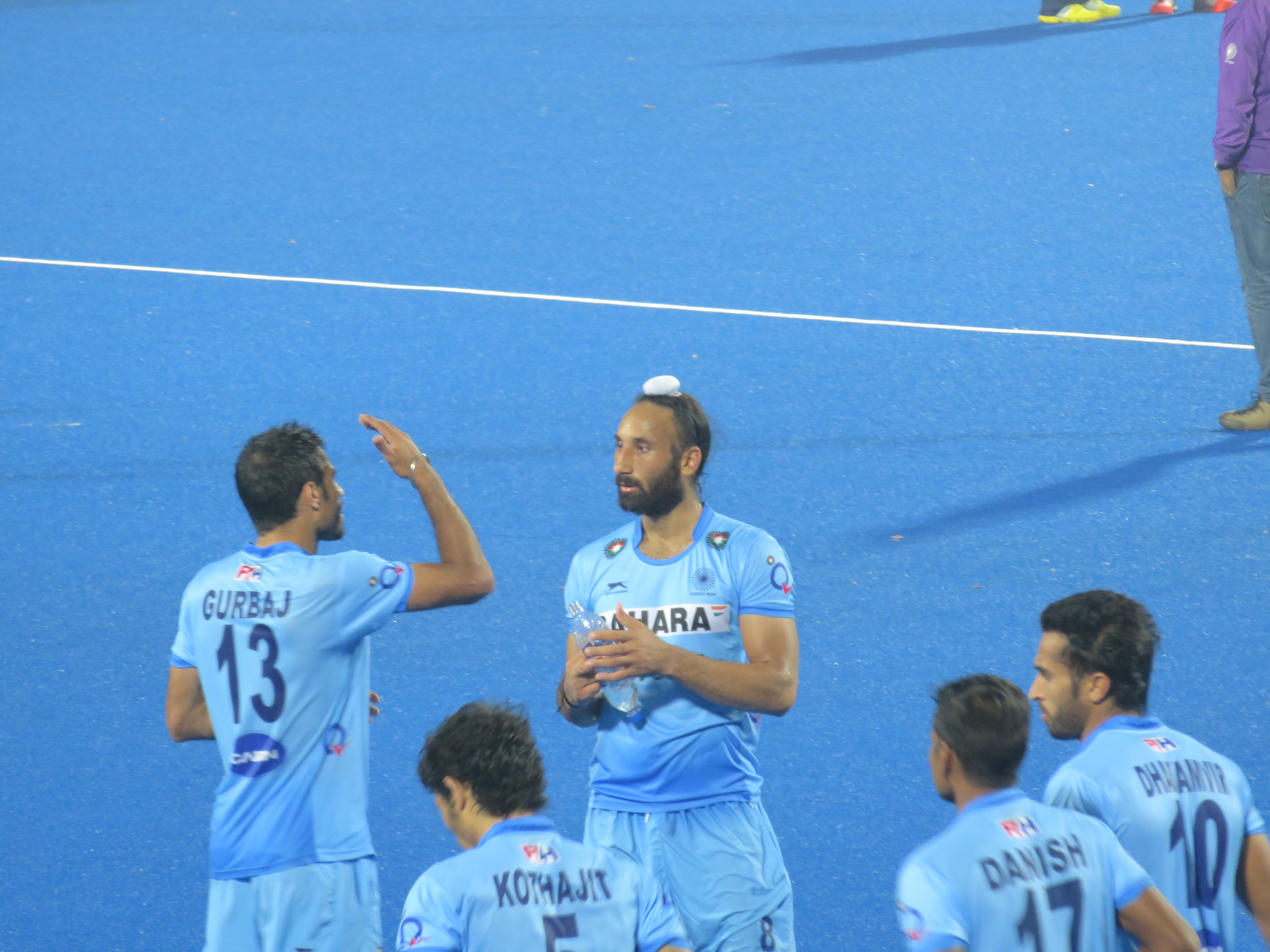 Indian hockey team captain Saradara singh with other players at Kalinga stadium